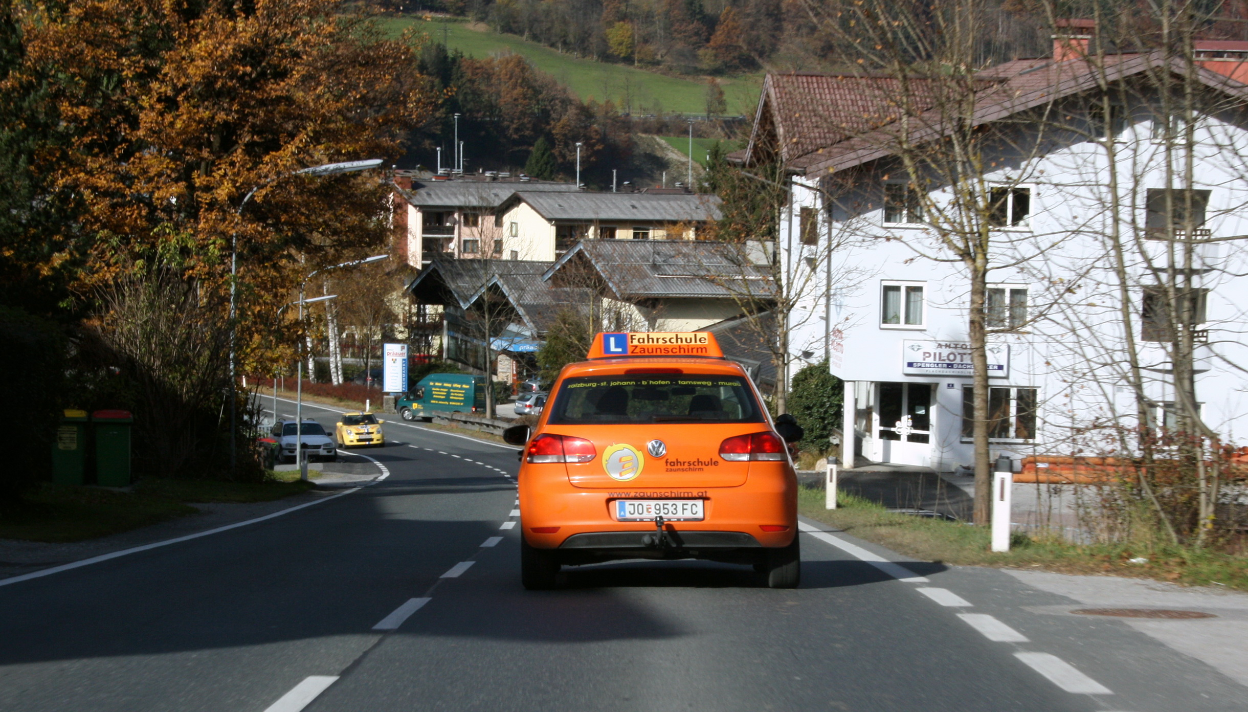 Driving school car in Austria